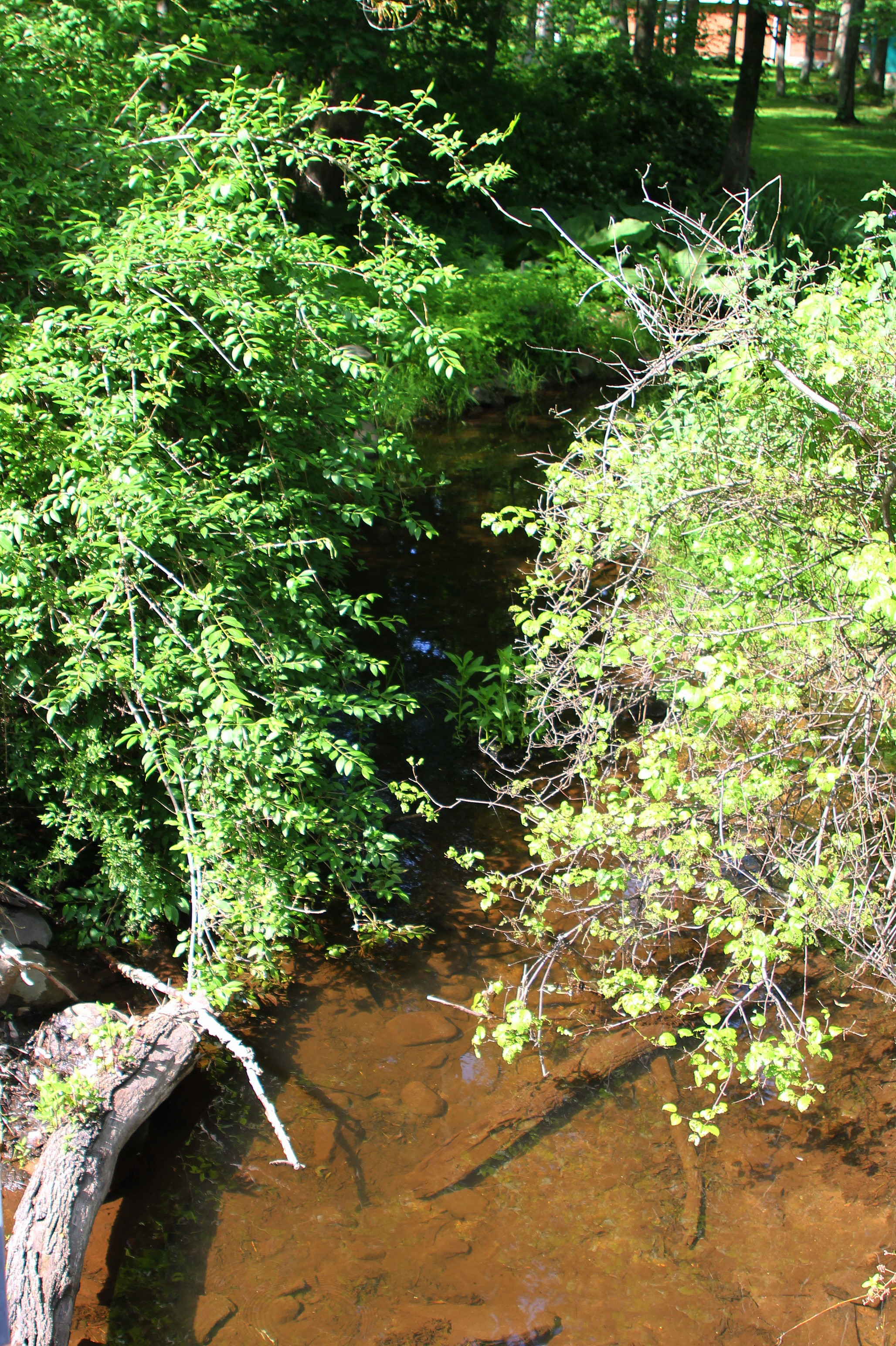 Pond Creek looking downstream from Pond Hill Mountain Road